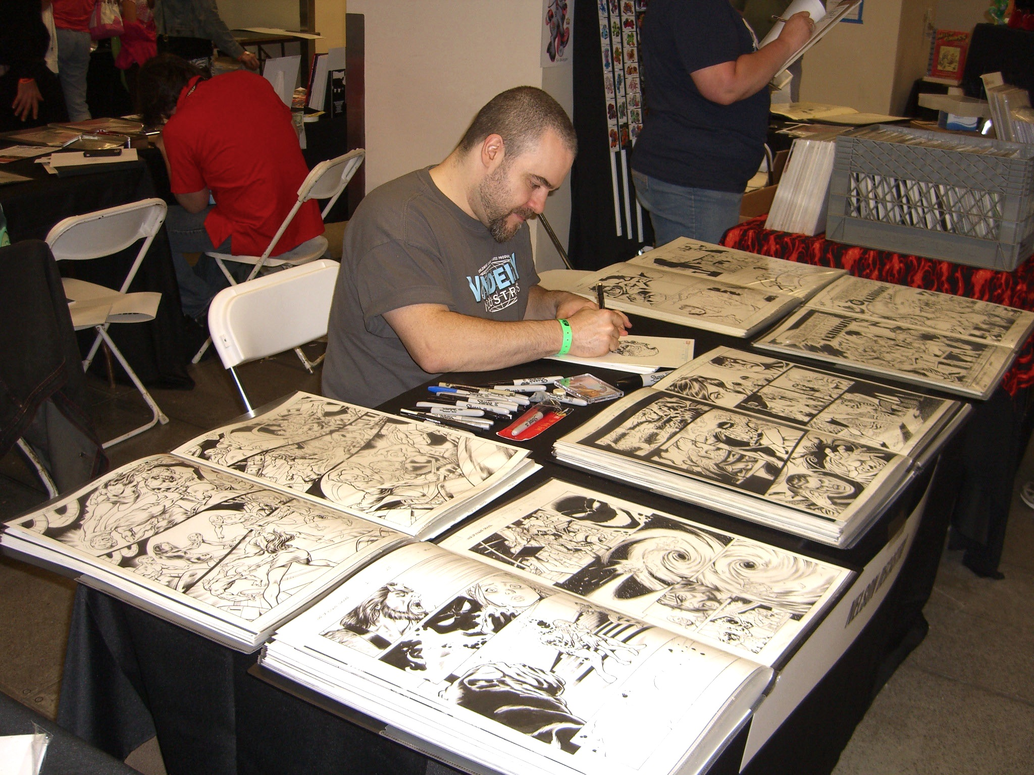 Comics creator Nelson DeCastro at the Big Apple Convention in Manhattan, May 22, 2011. Photographed by Luigi Novi. This photo is not in the public domain. It may, however, be used, modified and published for any purpose, free of charge, only if the photographer is properly credited, either by linking the photograph to this page, or with an easily visible credit to the photographer placed near the photo in each instance in which it is used. (See licensing information below.) Publication of this photo without this proper attribution constitutes copyright infringement. If you have any questions, you can contact me on my Wikipedia Talk Page.